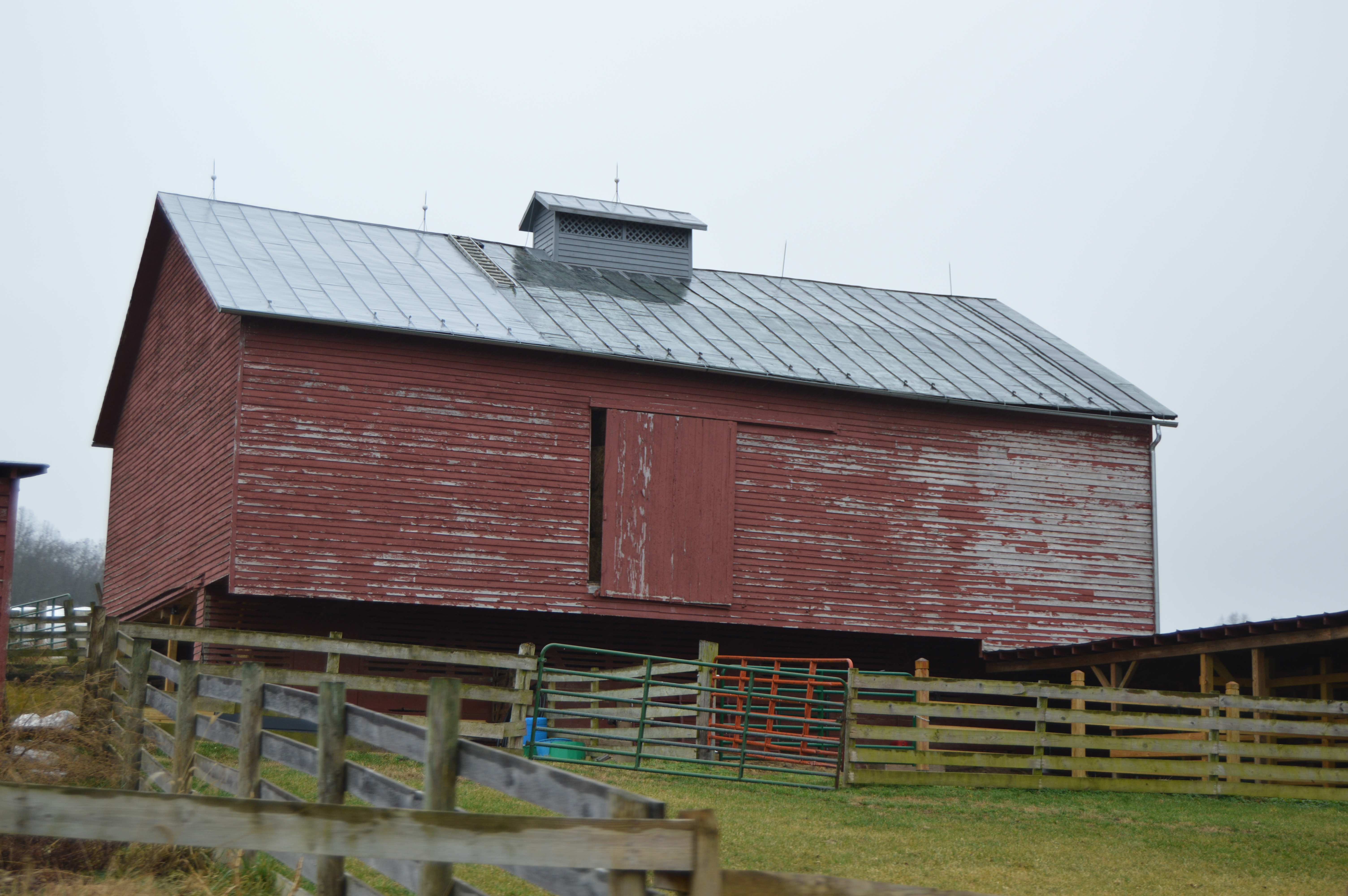 Front of the barn at Long Glade Farm, located on Mount Solon Road south of Moscow in Augusta County, Virginia, United States. Along with the rest of the farmstead, it is listed on the National Register of Historic Places.